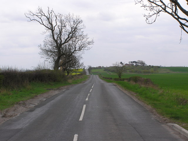 Roman Road. (Cades Road) : Roman Road to Sadberge, crossing the River Tees at Middleton-One-Row; Hill house Farm, is now an Animal Rescue Centre.